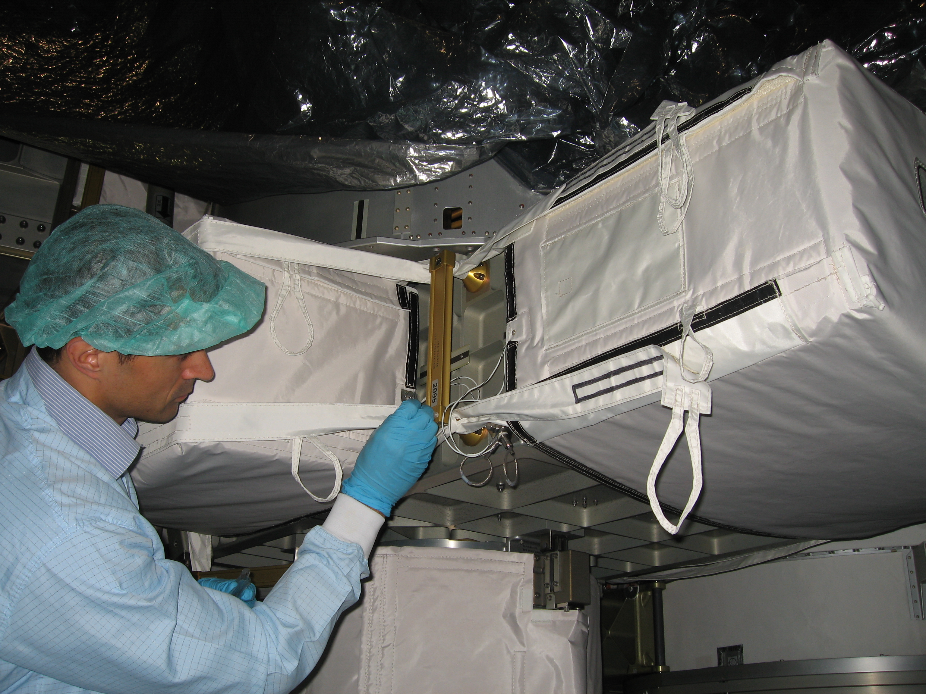 Jake Maule swabs a handrail on the S6 Truss in the Space Station Processing Facility (SSPF) at NASA Kennedy Space Center before launch (December 9, 2008). The S6 was launched aboard Space Shuttle Discovery STS-119 on March 15, 2009.